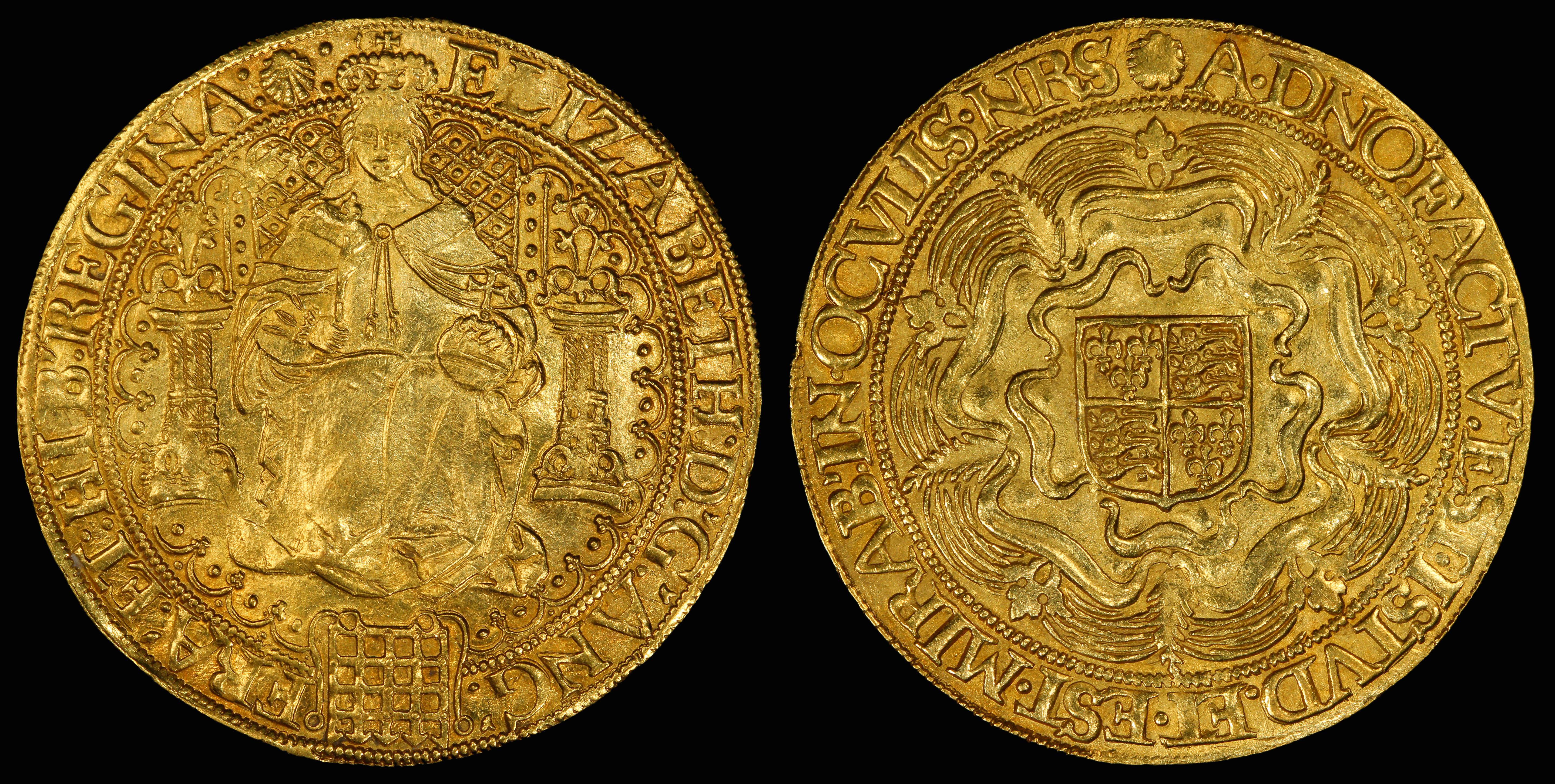 England (Great Britain) Sovereign of Elizabeth I